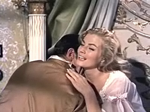 Cropped screenshot of Anita Ekberg from the trailer for the film War and Peace.